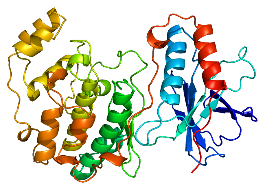 Structure of the MAPK14 protein. Based on PyMOL rendering of PDB 1a9u.